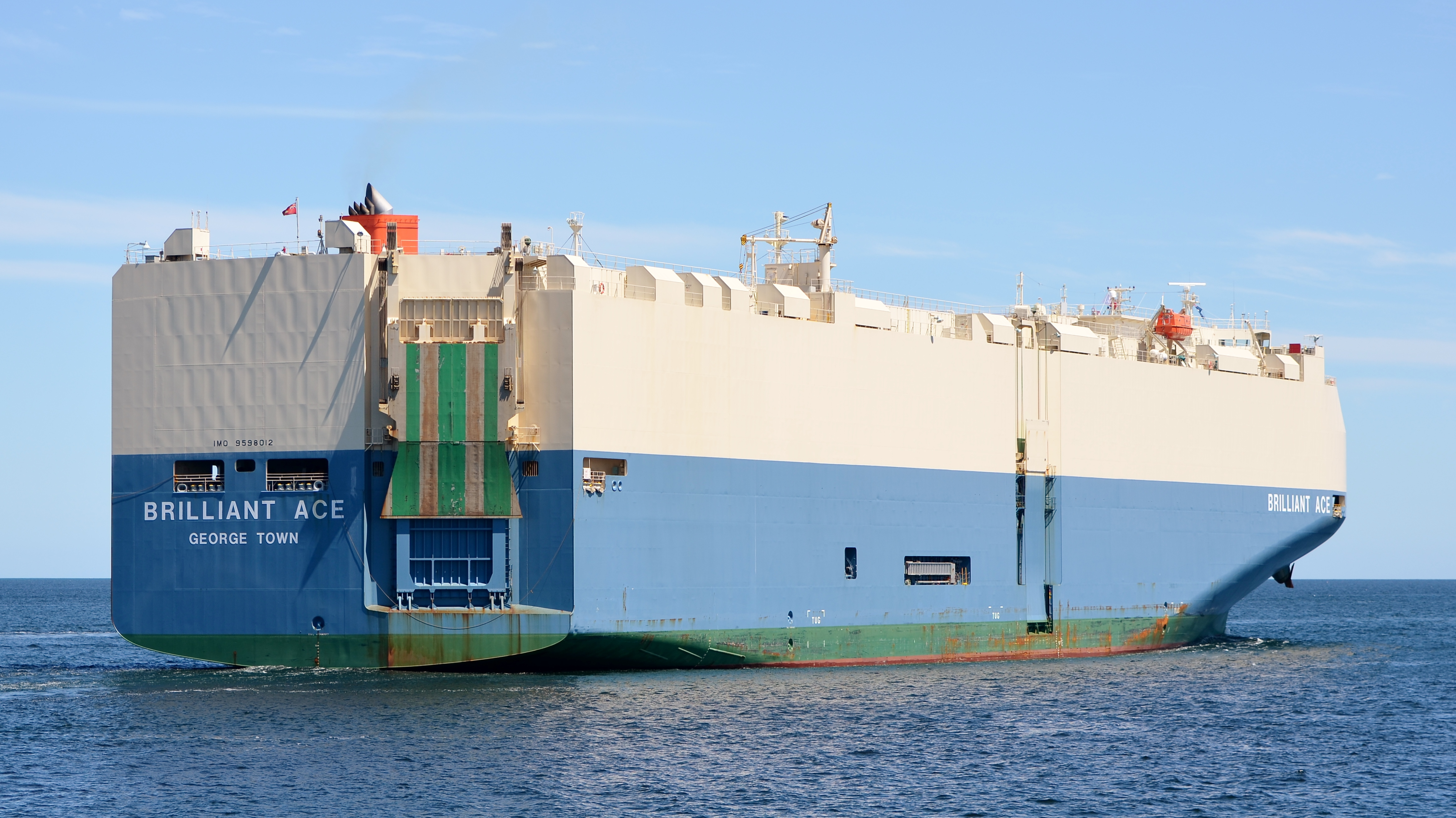 Mitsui O.S.K. Lines car carrier Brilliant Ace departing from the inner harbour of the Port of Fremantle, Western Australia, on a voyage to Port Adelaide, South Australia.